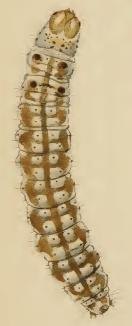 Stainton’s Natural History of the Tineina (1855–1873): Neofaculta ericetella